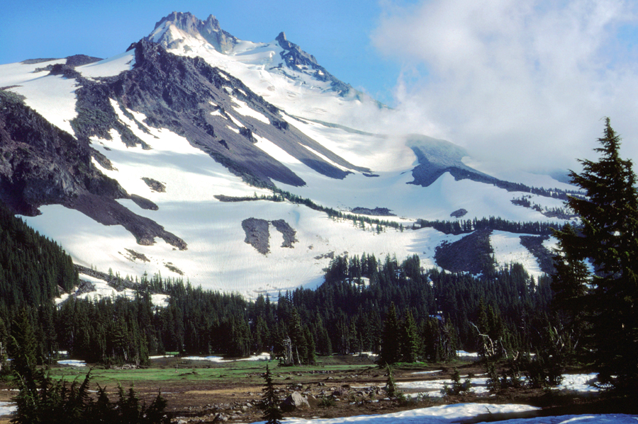 Mount Jefferson, Oregon rising above the meadows of Jefferson Park, A large parkland basin on the north flank of the peak.